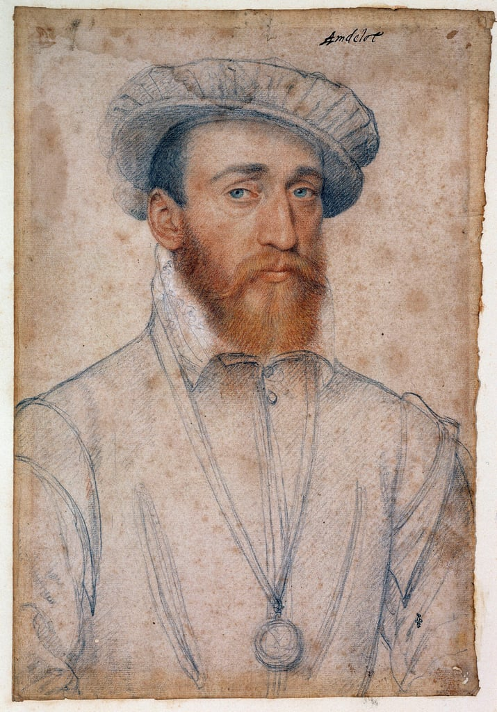 François de Coligny d’Andelot, younger brother of Gaspard II de Coligny, one of the most important military leaders of the protestant party during the french wars of religion.